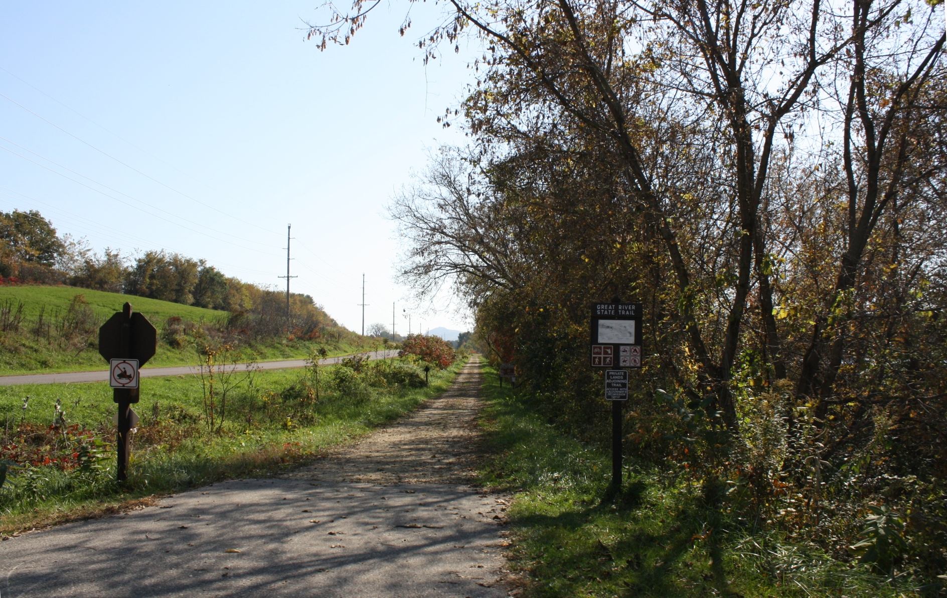 The Great River State Trail at the entrance to the Trempealeau National Wildlife Refuge.